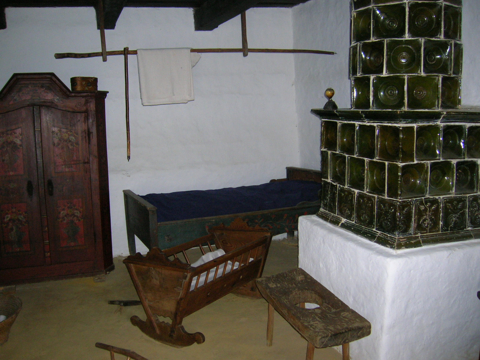 Room in an old peasant home. Göcsej Village Museum, Zalaegerszeg, Hungary.